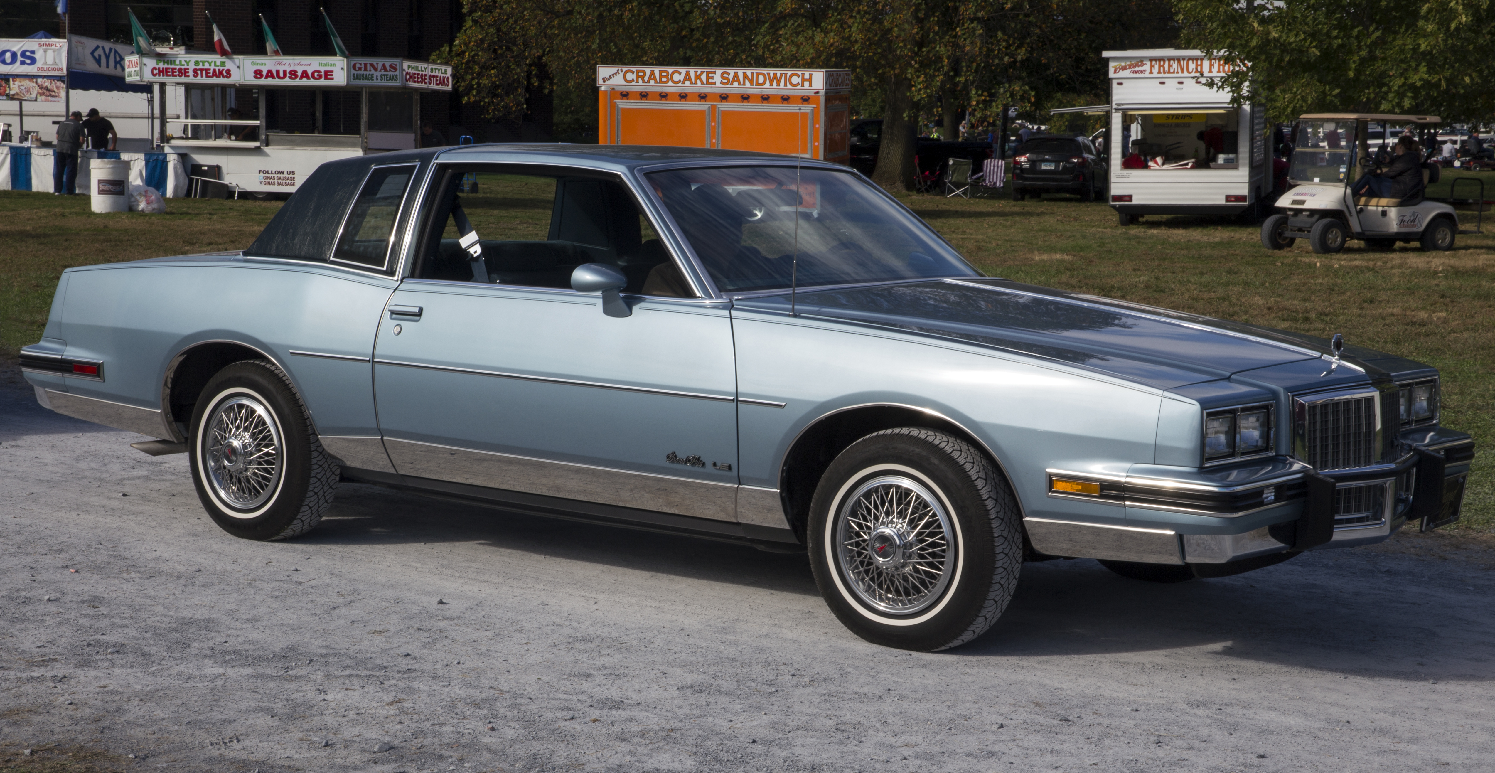 A 1985 Pontiac Grand Prix LE (model 2G, body style K37, 21,195 built) trying to exit the show area at Hershey 2019.